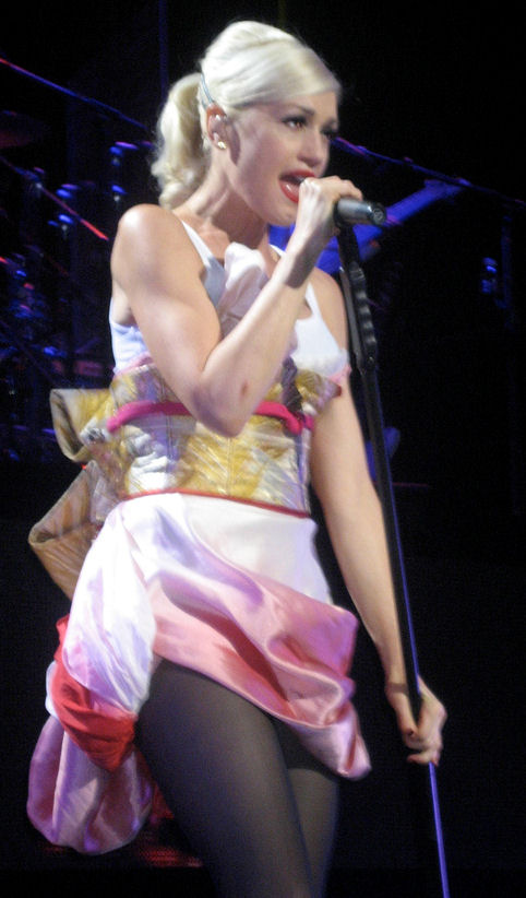 Gwen Stefani, sing early winter